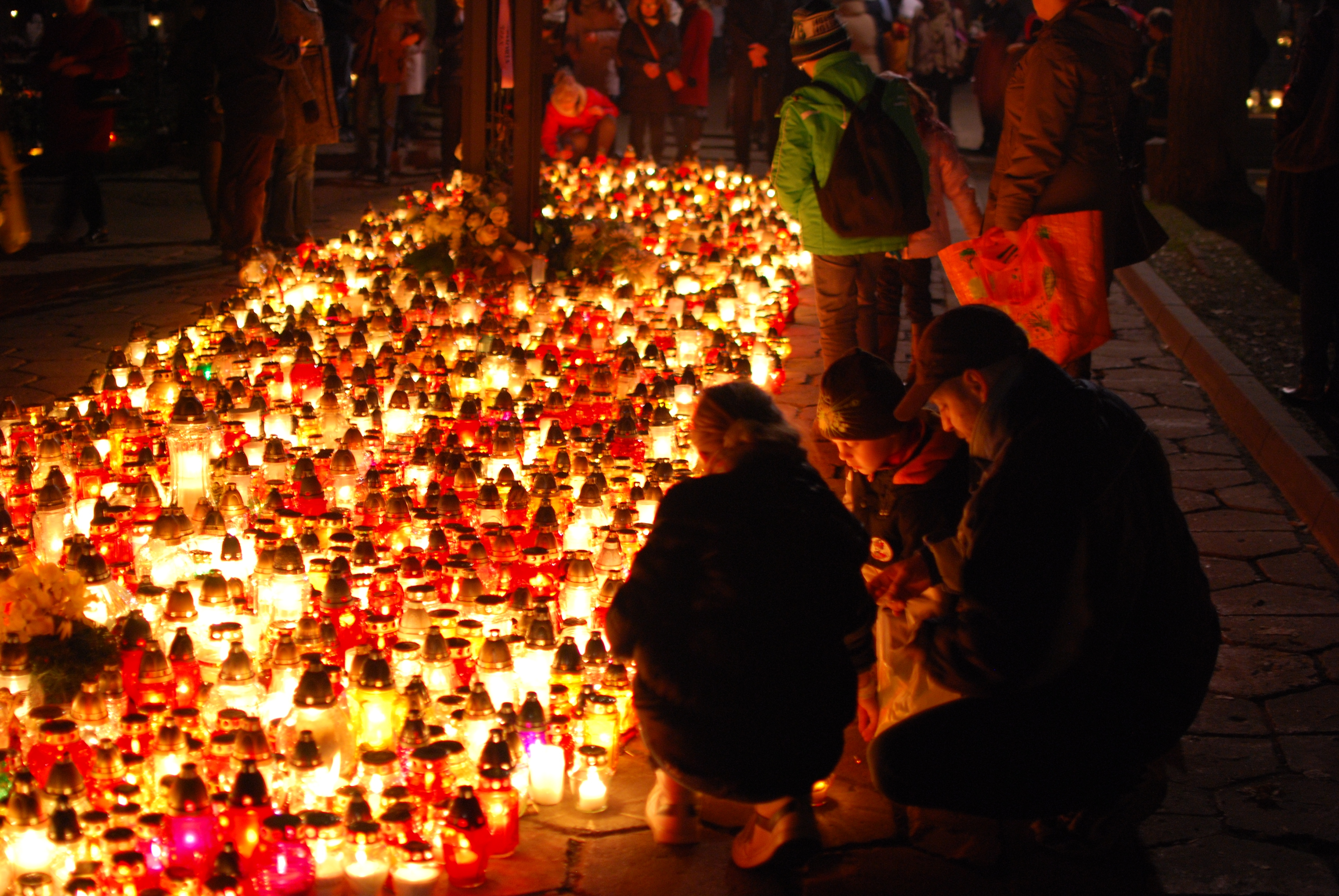 All Saints Day at Old Cemetery in Łódź, 2014 grave candles